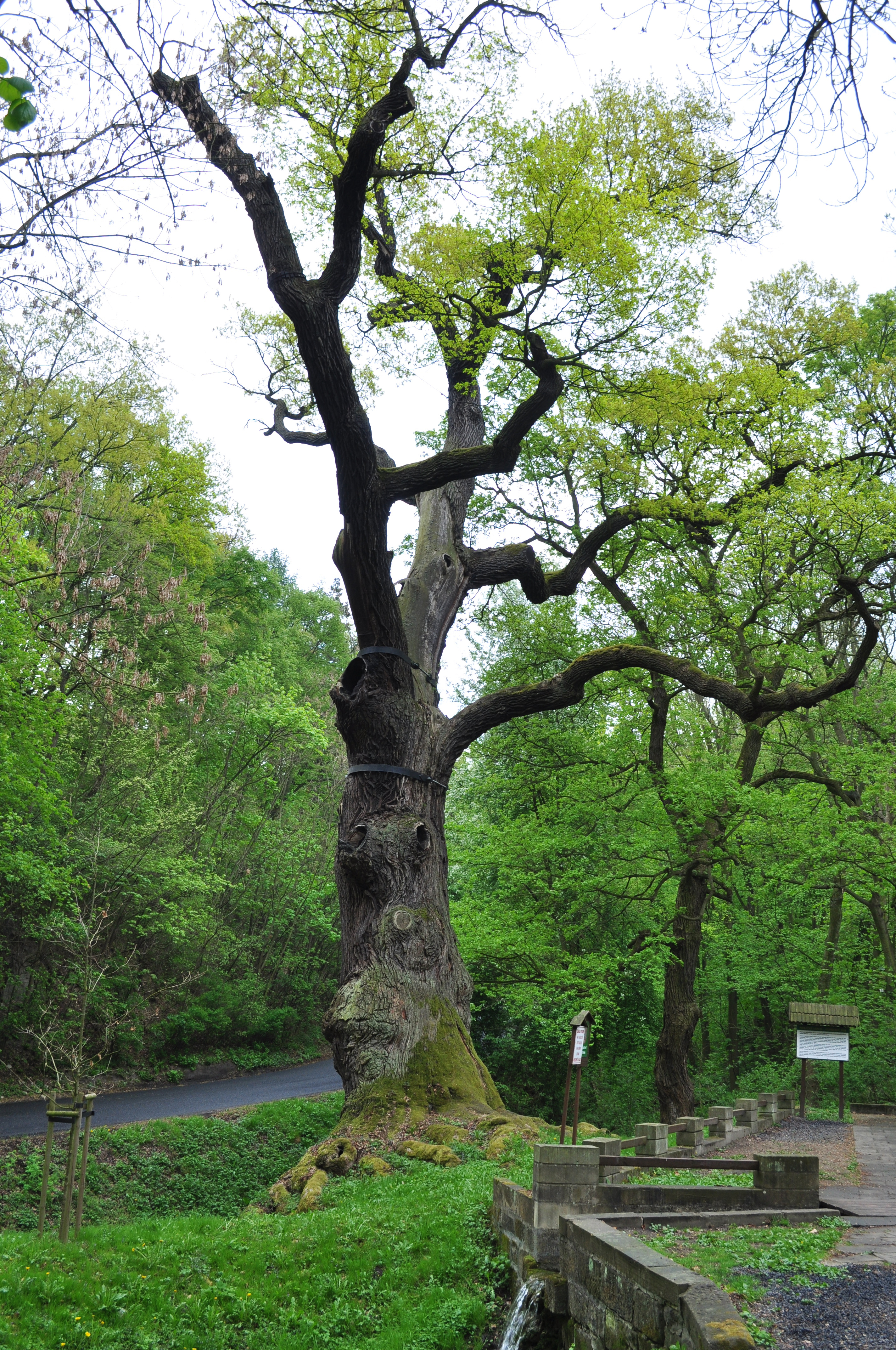 Peruc - Oak of Oldrich, Duke of Bohemia